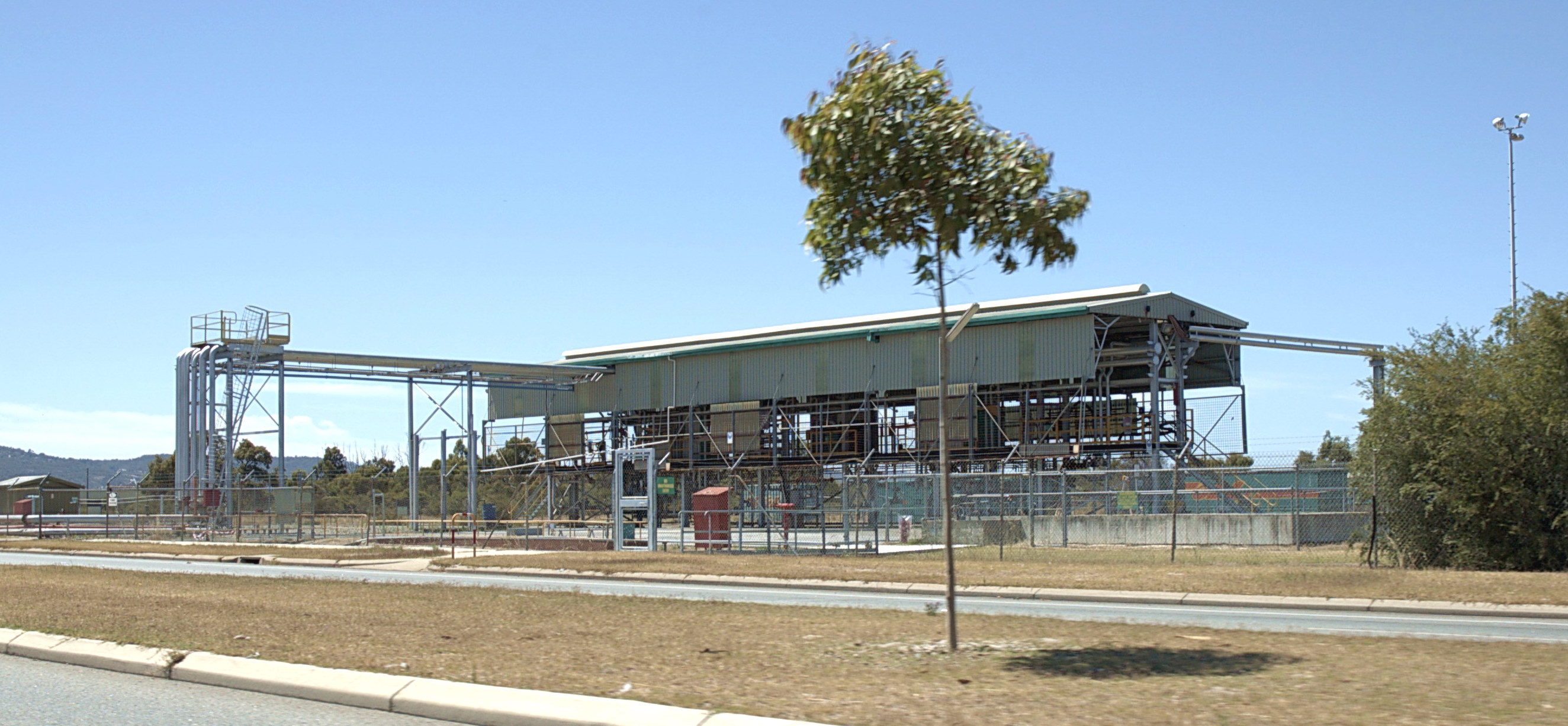 BP fuel siding at Kewdale Freight Terminal, Kewdale, Western Australia. This gantry uses over head loading with one side configured to load 3 narrow gage cars, the other side is configured for 2 standard gage cars. A two man crew loads between 20-26 cars per day, providing approximately 1.5m litres of fuel to Kalgoorlie per day, with diesel comprising 98% of the overall volume.